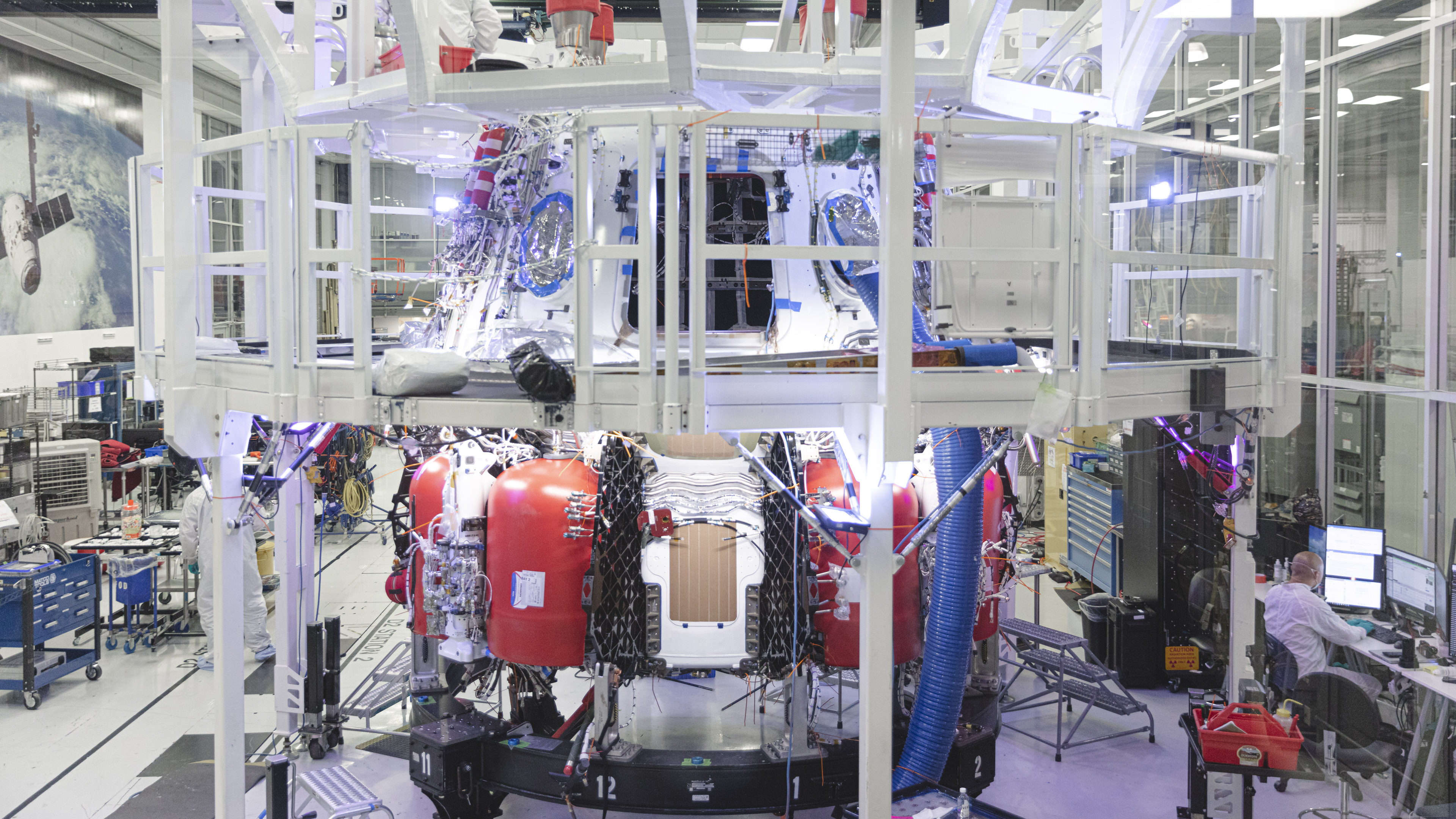 The Crew Dragon spacecraft that will be used for the Crew-1 mission for NASA’s Commercial Crew Program undergoes processing inside the clean room at SpaceX headquarters in Hawthorne, California. The Crew-1 mission to the International Space Station is targeted for later in 2020 with NASA Astronauts Victor Glover, Mike Hopkins, Shannon Walker and JAXA astronaut Soichi Noguchi.